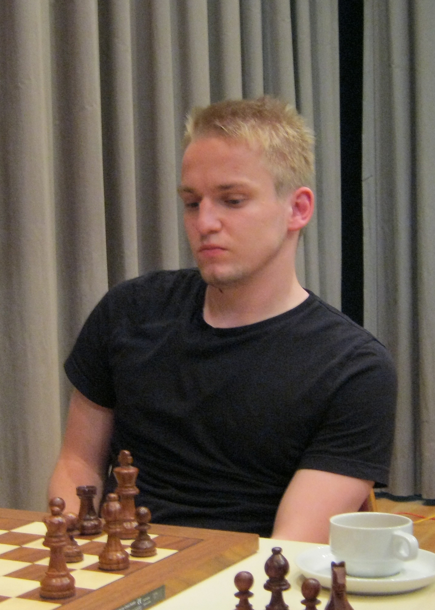 Arik Braun, chess grandmaster from Germany